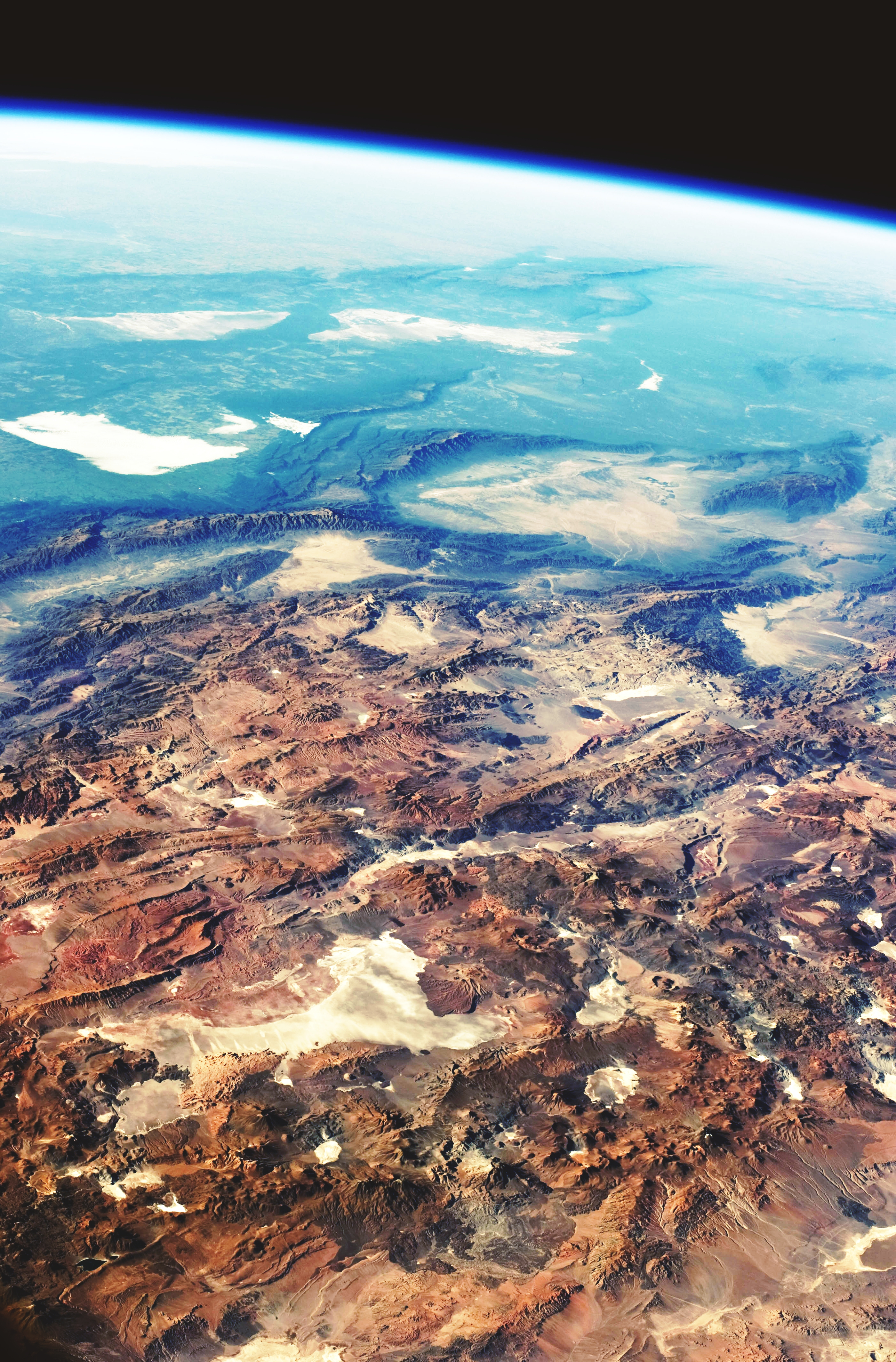 This image was taken by an astronaut looking south-east across the South American continent when the International Space Station (ISS) was almost directly over the Atacama Desert near Chile’s Pacific coast. The high plains (3000–5000 meters) of the Andes Mountains, also known as the Puna, appear in the foreground, with a line of young volcanoes facing the much lower Atacama Desert (1000–2000 m elevation). Several salt-crusted dry lakes (known as salars in Spanish) occupy the basins between major thrust faults in the Puna. Salar de Arizaro (foreground) is the largest of the dry lakes in this view. The Atlantic Ocean coastline, where Argentina’s capital city of Buenos Aires sits along the Río de la Plata, is dimly visible at image top left. Near image centre, the transition between two distinct geological zones, the Puna and the Sierras Pampeanas, creates a striking landscape contrast. Compared to the Puna, the Sierras Pampeanas mountains are lower in elevation and have fewer young volcanoes. Sharp-crested ridges are separated by wide, low valleys in this region. The Salinas Grandes—ephemeral shallow salt lakes—occupies one of these valleys. The general colour change from reds and browns in the foreground to blues and greens in the upper part of the image reflects the major climatic regions: the deserts of the Atacama and Puna versus the grassy plains of central Argentina, where rainfall is sufficient to promote lush prairie grass, known locally as the pampas. The Salinas Grandes mark an intermediate, semiarid region.